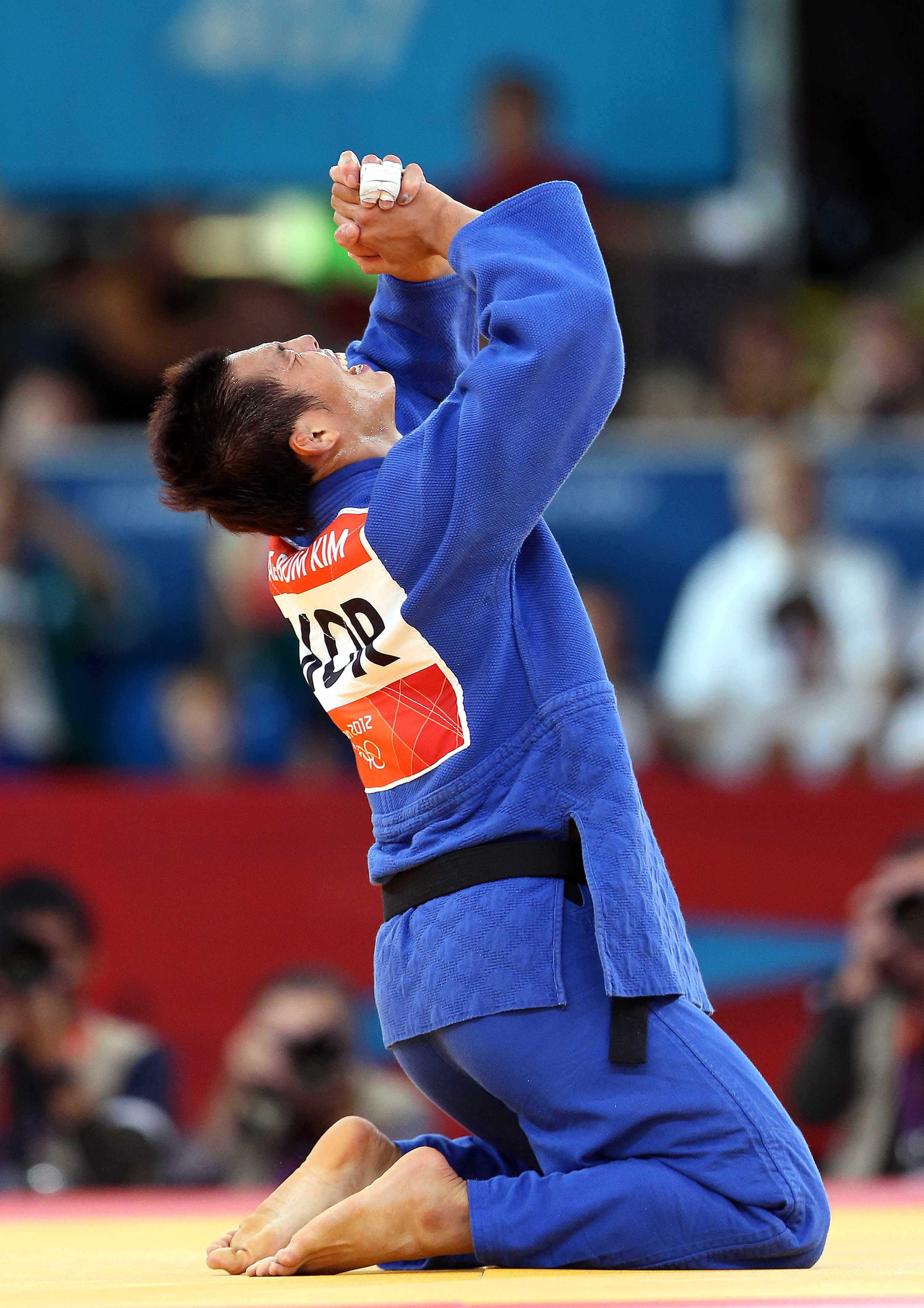 2012 London Olympic Games. Korea Judo, Kim Jae-bum won the gold medal -81kg match